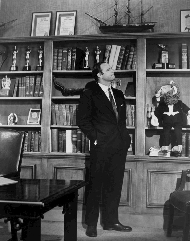 Photo of Marlon Brando from the television program MGM Parade. The show featured an "inside" look at MGM's studios and workings, along with film clips from MGM movies.